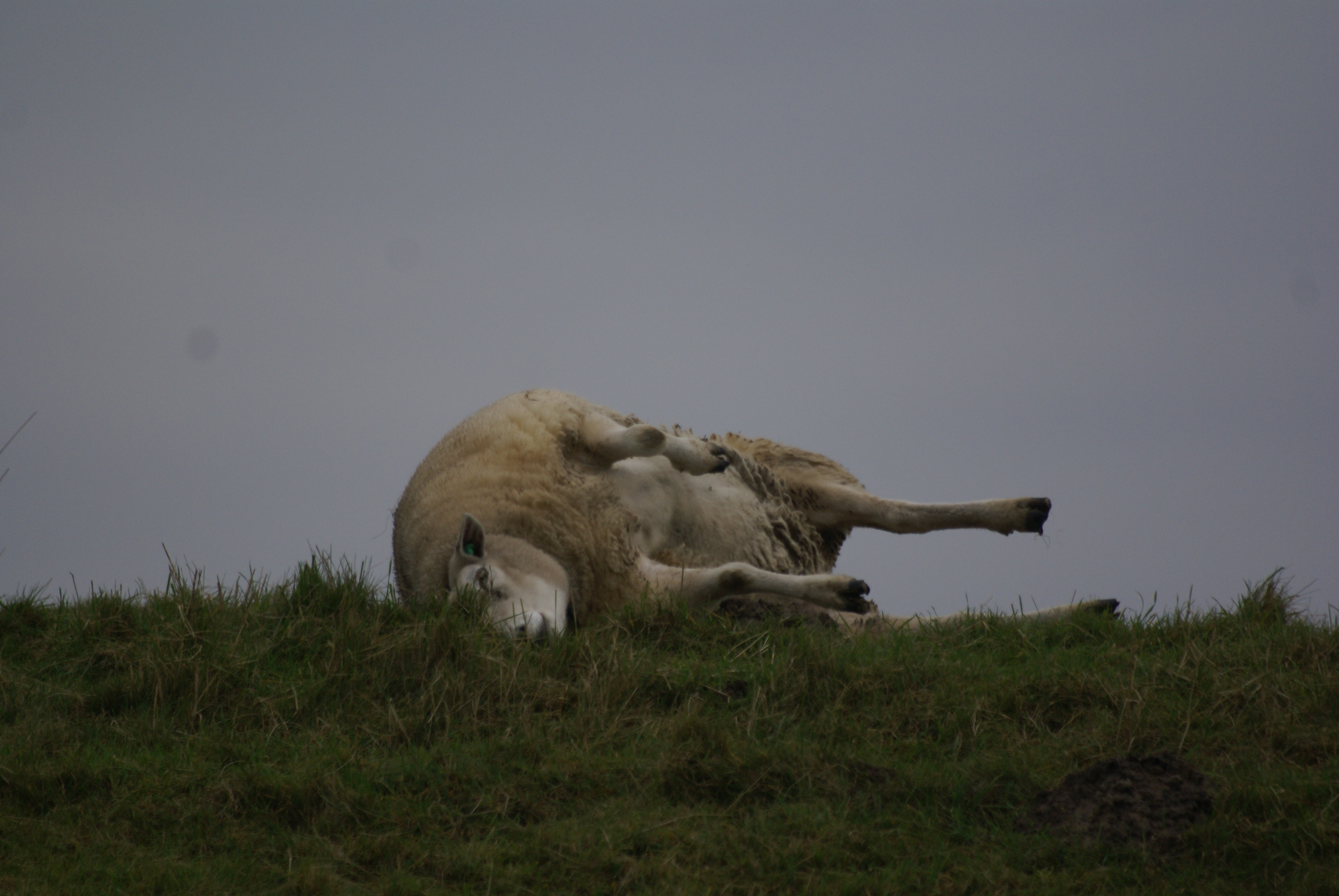 Castsheep